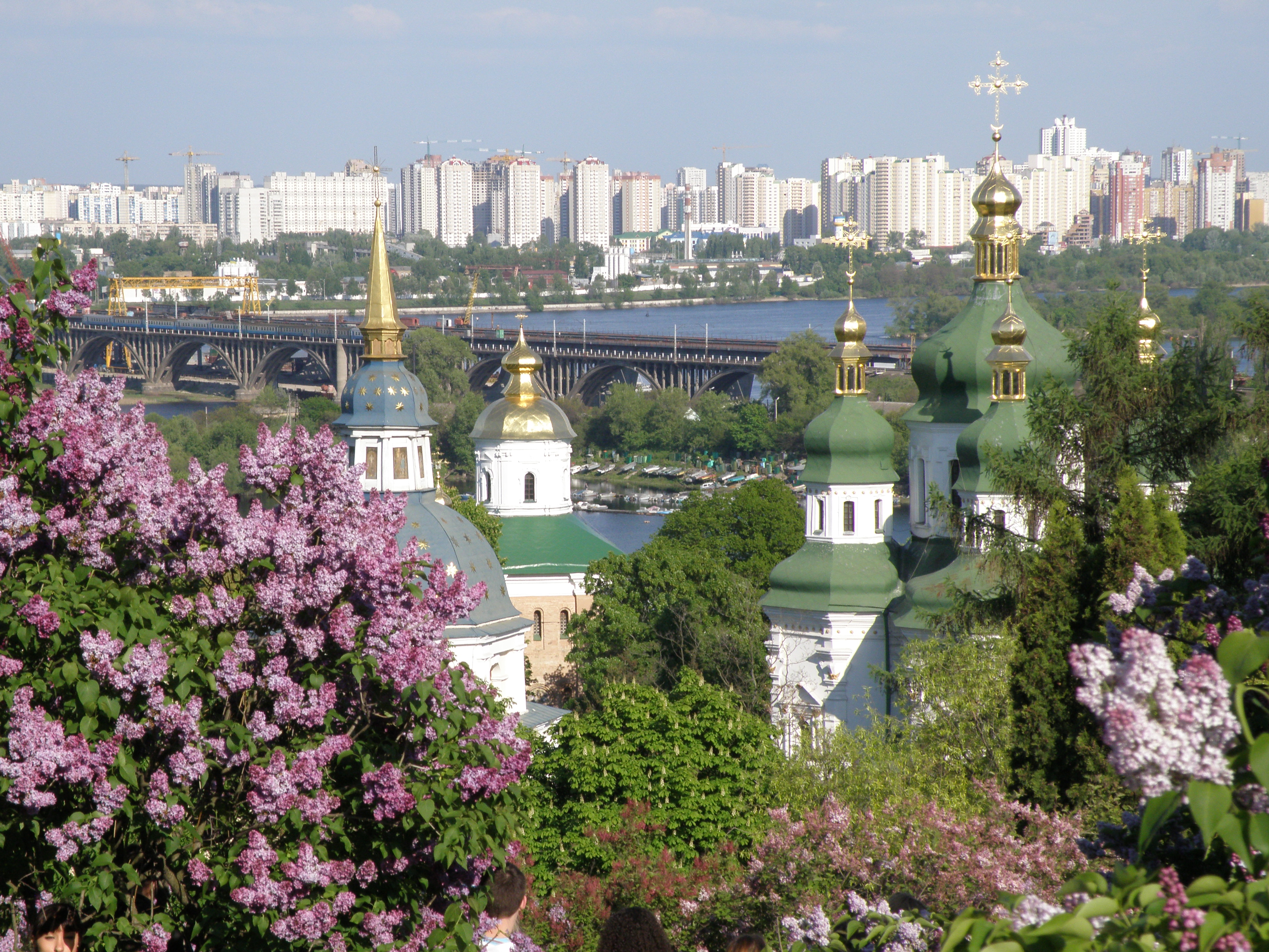 Vydubychi Monastery in Kiev, Ukraine.